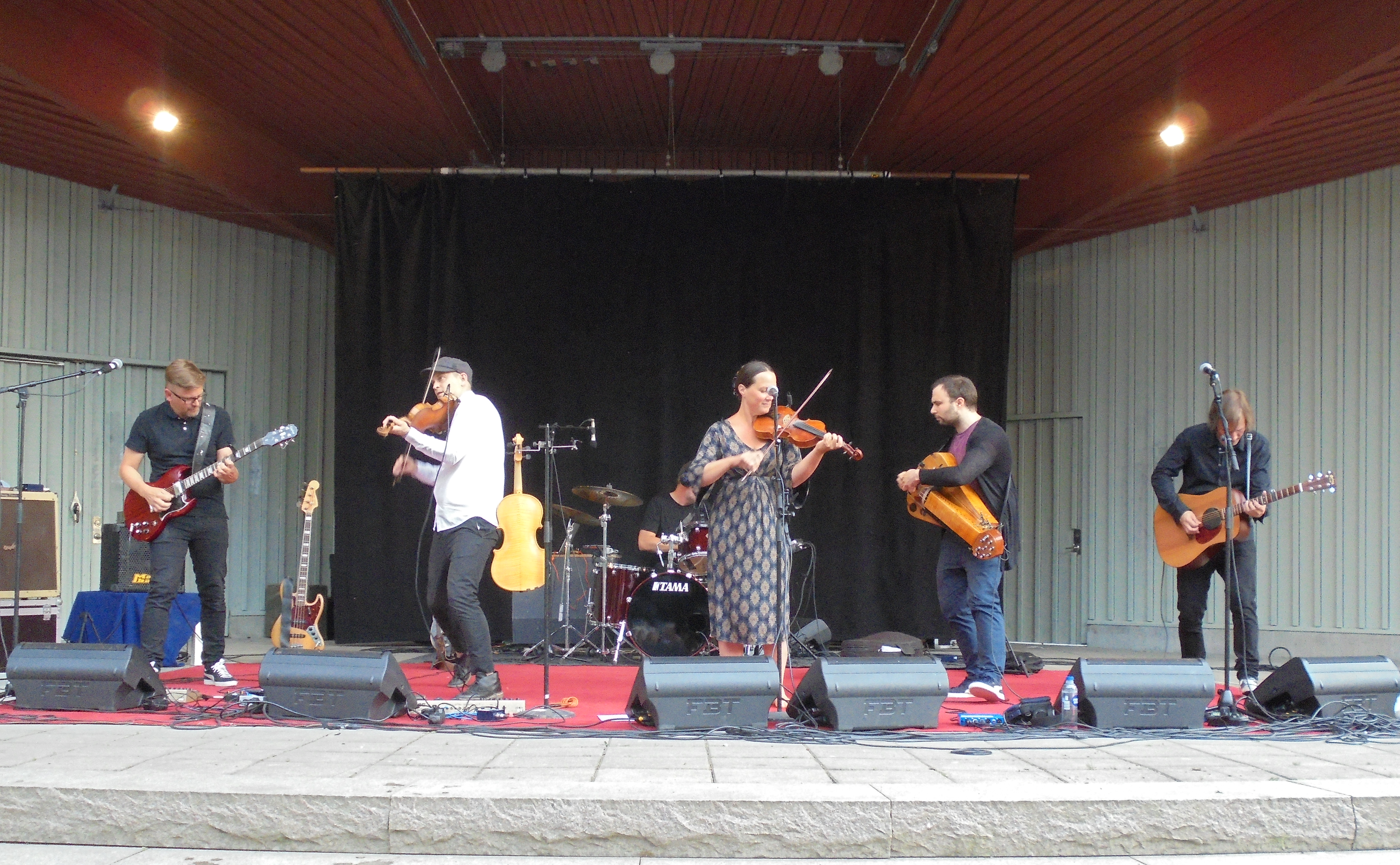 Garmarna with Johannes Geworkian Hellman, in concert in Uppsala. July 29th, 2016. Left to rightː Rickard Westman (electric guitar), Stefan Brisland-Ferner (violin), Jens Höglin (drums), Emma Härdelin (violin), Johannes Geworkian Hellman (hurdy-gurdy), and Gotte Ringqvist (guitar).